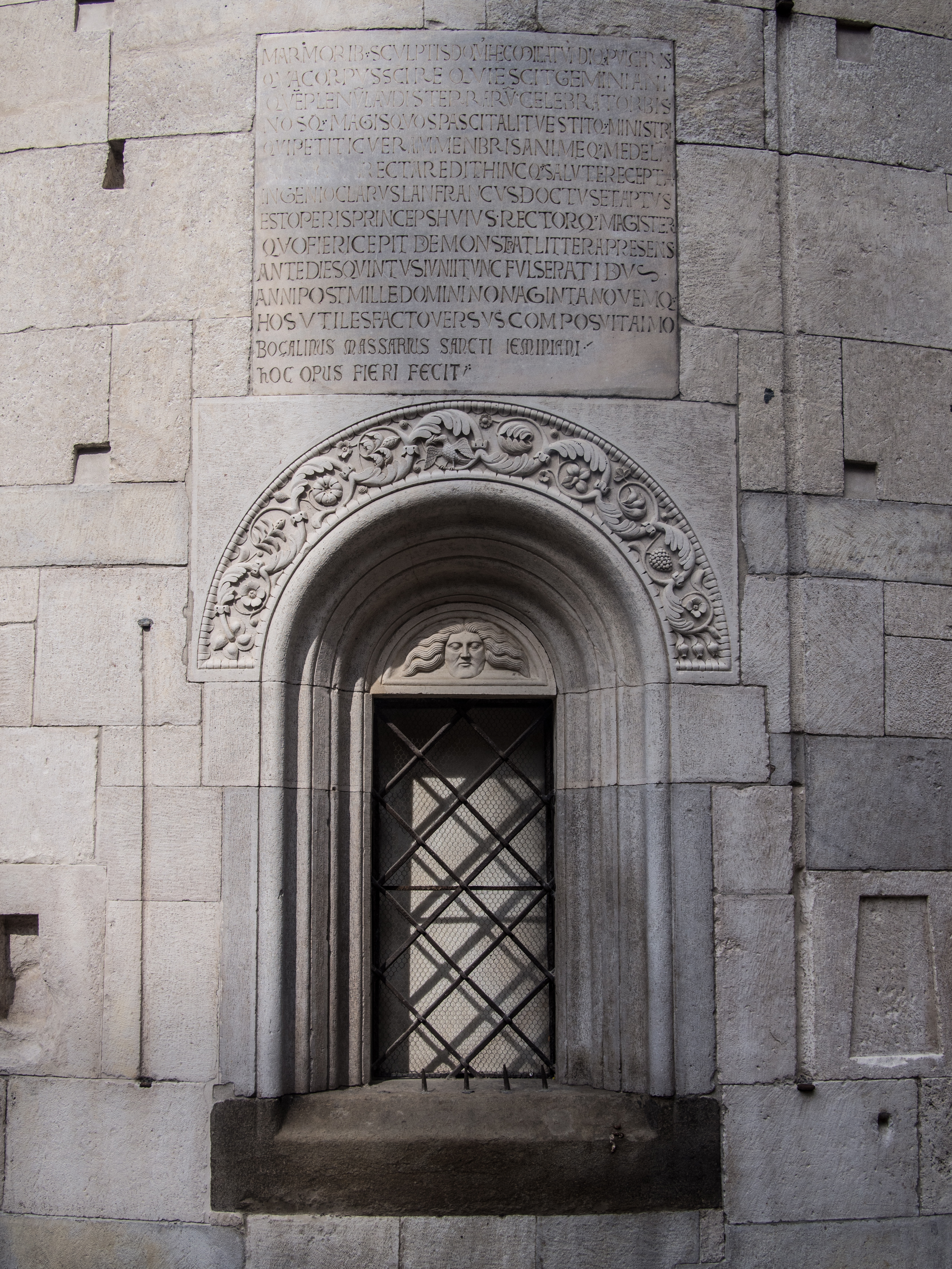 Modena Cathedral outside inscription